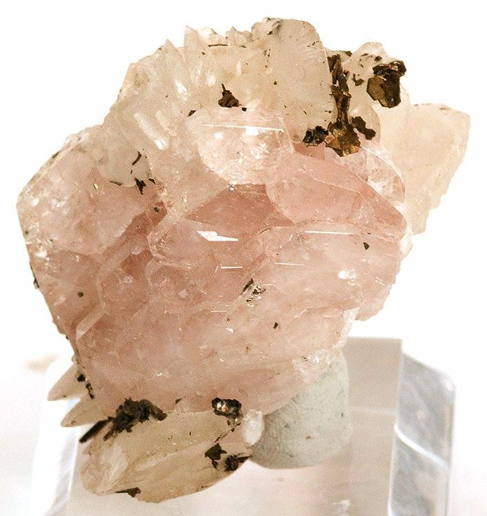 Apatite, Scheelite, Cubanite, Magnesite Locality: Morro Velho mine (incl. Mina Velha; Mina Grande), Nova Lima, Iron Quadrangle, Minas Gerais, Southeast Region, Brazil (Locality at ) Size: 4.3 x 3.7 x 2.6 cm. A rare, interesting, and fine combination specimen from the Morro Velho gold mine of Brazil. Most of this fine miniature is composed of gemmy, very glassy, hexagonal, parallel-growth, light pastel-pink apatite crystals. Lustrous, hexagonal, cubanite plates to 6 mm are richly peppered about and there are also a few lustrous, glassy, colorless. Nail-head magnesite rhombs to 1.9 cm on the fringe. The real highlight of this combination is the two yellow-orange scheelite crystals. The large, euhedral, 1.3 cm scheelite is hidden on one end and even though it is partially contacted, it is significant. Ex. Michael Jactat Collection, a French dealer and collector, who was active in Brazil at the time and collected fine miniatures for his own collection.